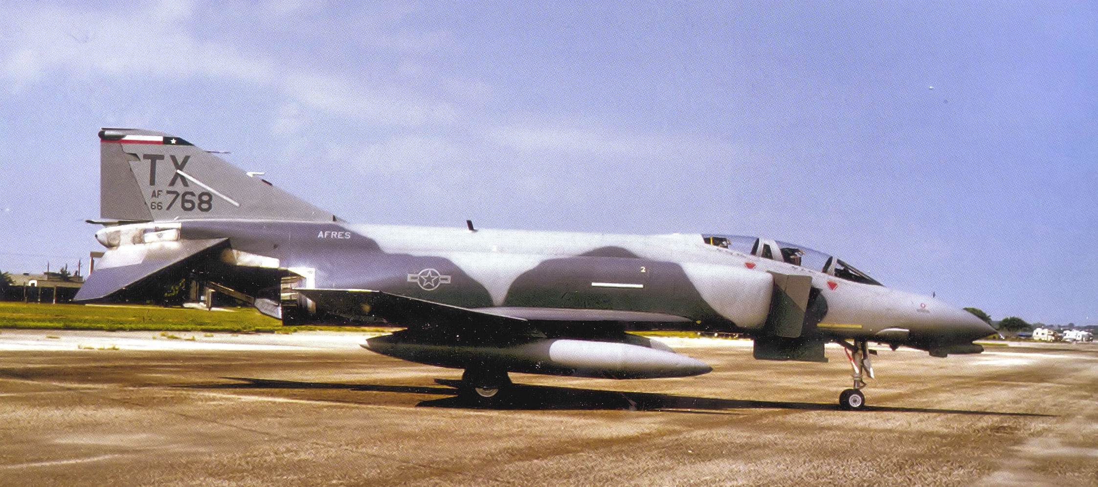 704th Tactical Fighter Squadron McDonnell F-4D-32-MC Phantom 66-8768 Bergstrom AFB, Texas 1990. Aircraft now on display in front of the VFW post in Bastrop, TX. This aircraft was dedicated in the memory of MSGT Joseph A Russo ( name painted in pilots position) and MSGT Leroy Mrgrow ( name painted in the co-pilots position. Joe Russo was a resident of Bastrop County and Crew Chief assigned to maintain this aircraft during its flying days at Bergstrom AFB. Both men were member of the 924th maintains squadron and life long members of the Air Force Reserve.